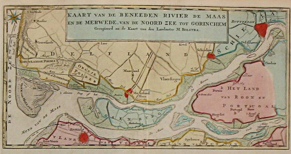 Mouth of the Meuse in 1769. Map of Izaak Tirion from 1769.